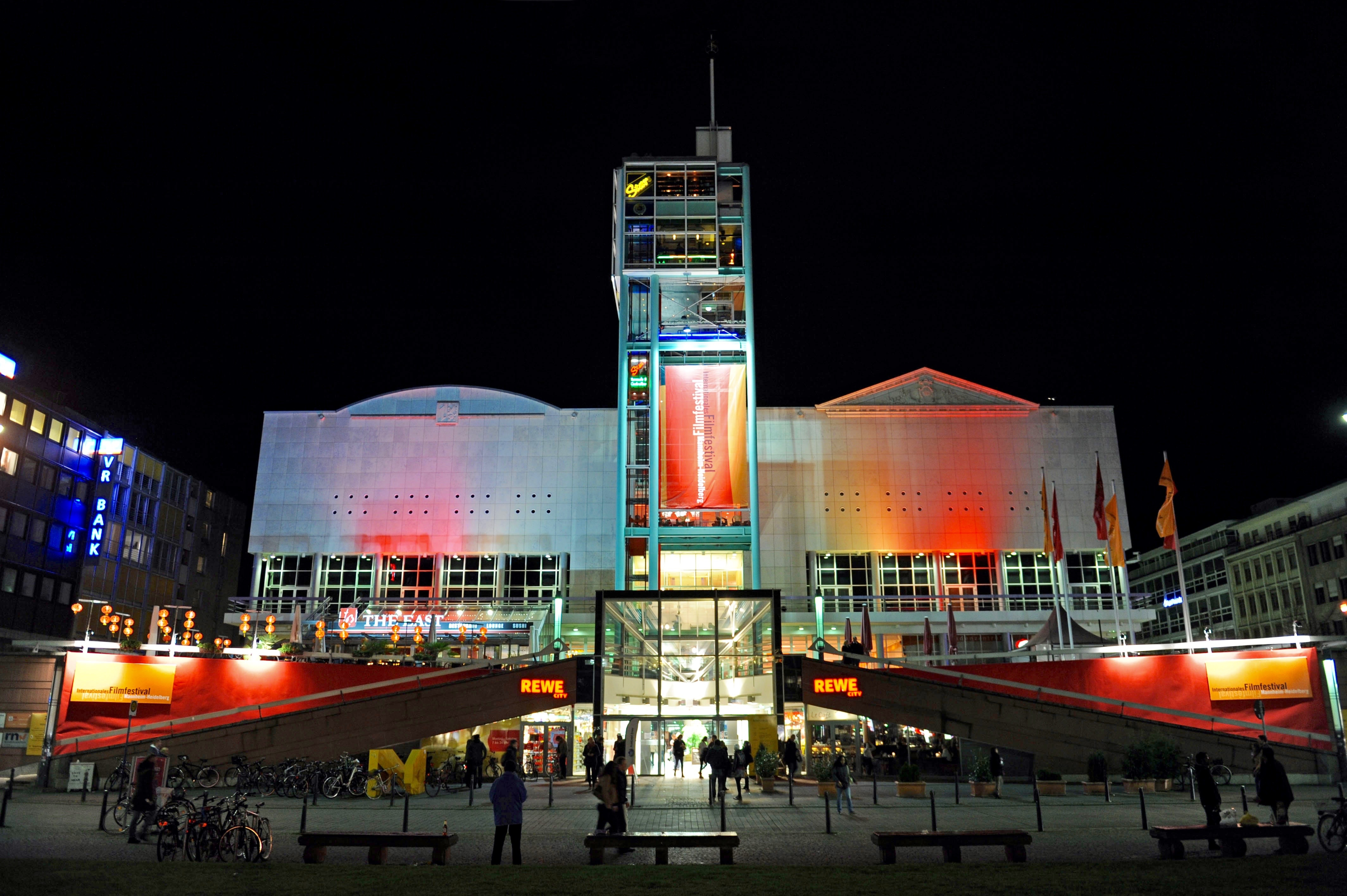 Stadthaus N1, where the festival takes place in Mannheim